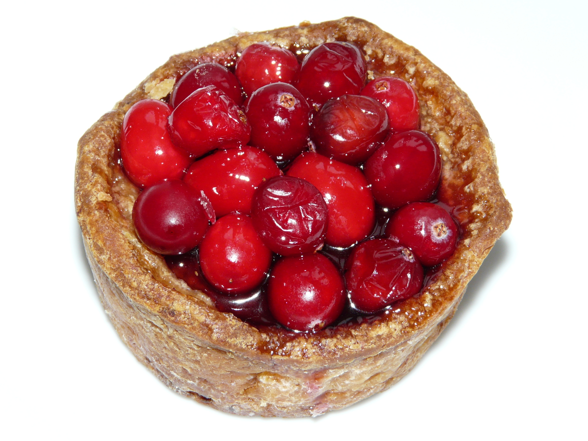 A cherry and pork sweet-and-savoury picnic pie.